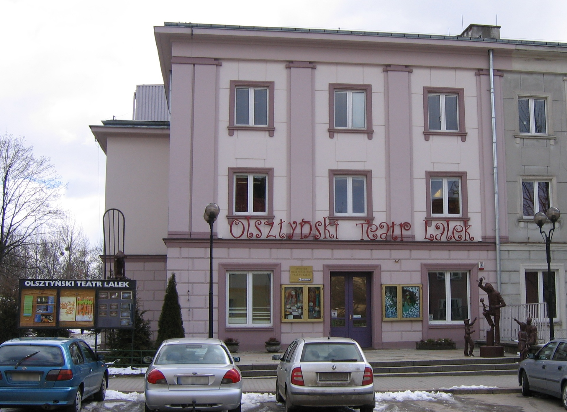 Puppet Theatre in Olsztyn